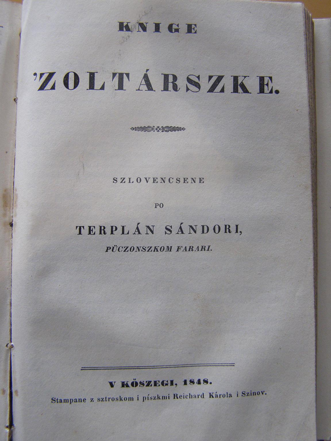 Knige 'zoltárszke (Book of psalms), prekmurian (prekmurščina) psalm-book, by Sándor Terplán, 1848